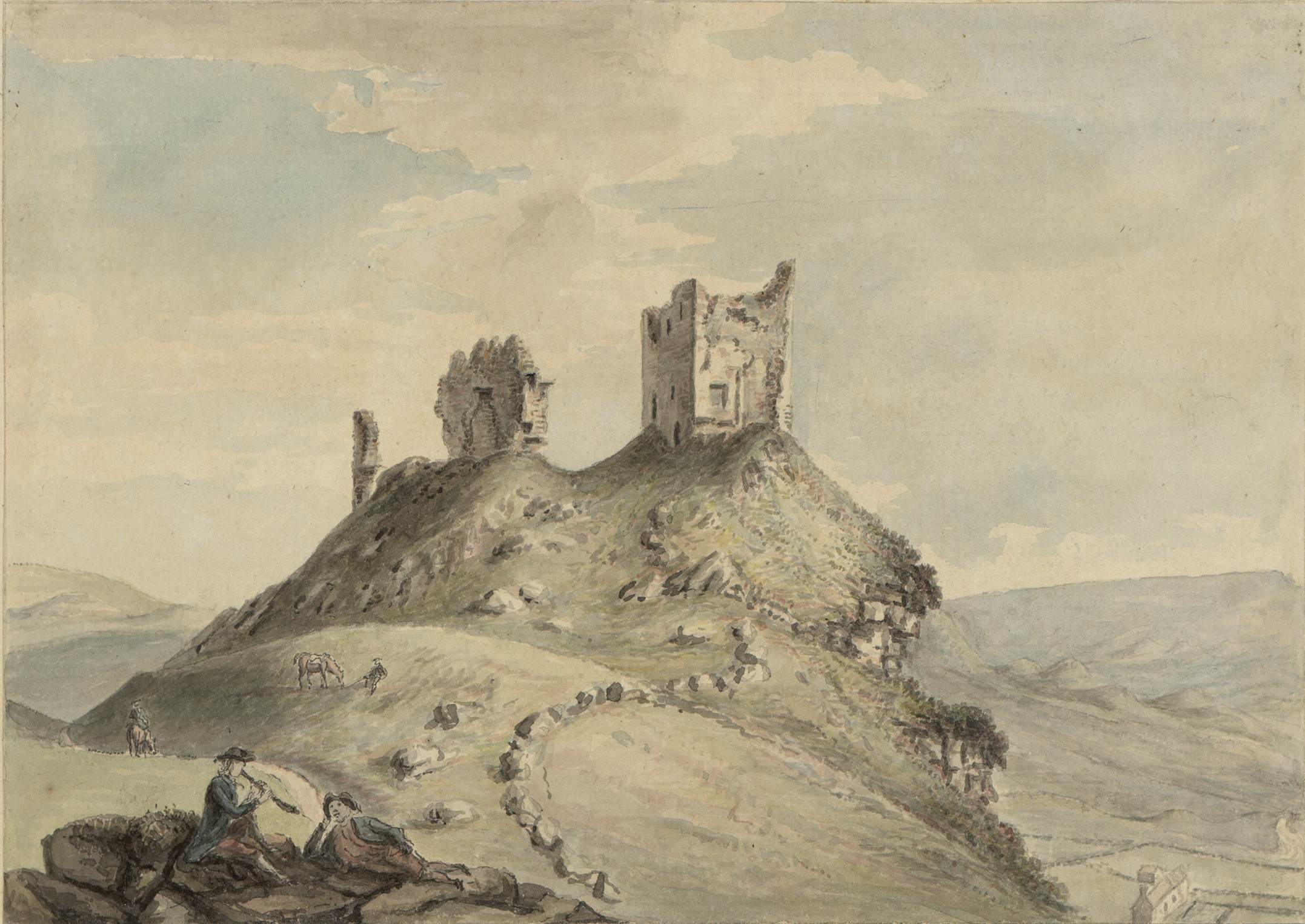 An image from a set of 8 extra-illustrated volumes of A tour in Wales by Thomas Pennant (1726-1798) that chronicle the three journeys he made through Wales between 1773 and 1776. These volumes are unique because they were compiled for Pennant's own library at Downing. This edition was produced in 1781. The volumes include a number of original drawings by Moses Griffiths, Ingleby and other well known artists of the period. Thomas Pennant (1726-1798)